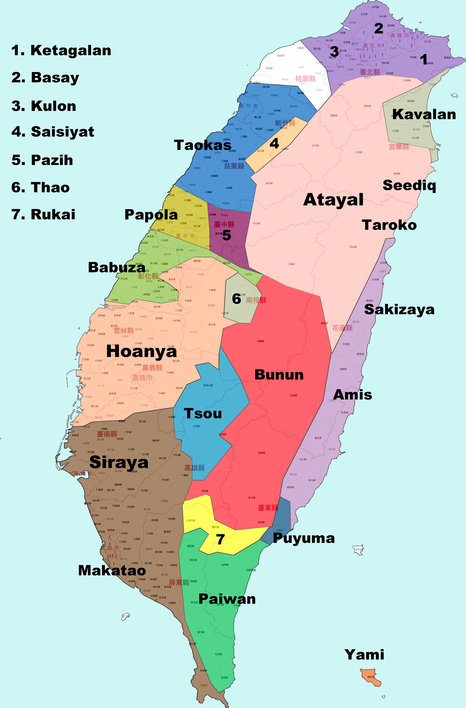 Distribution of Early Taiwan Aborigines